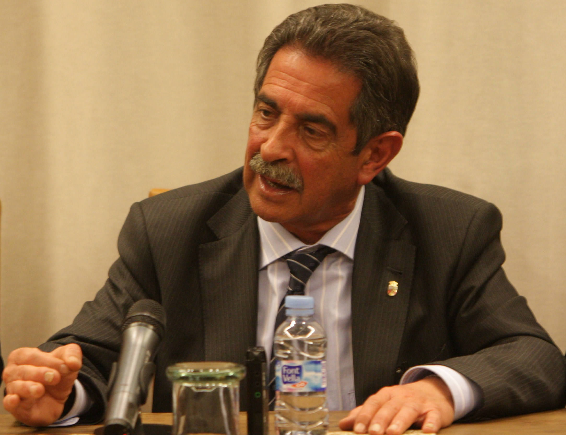 Miguel Ángel Revilla giving a lecture at the Elías Ahúja University College of Madrid; date: February 10, 2011.